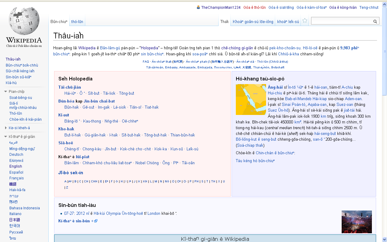 The Main page of the Min Nan Wikipedia